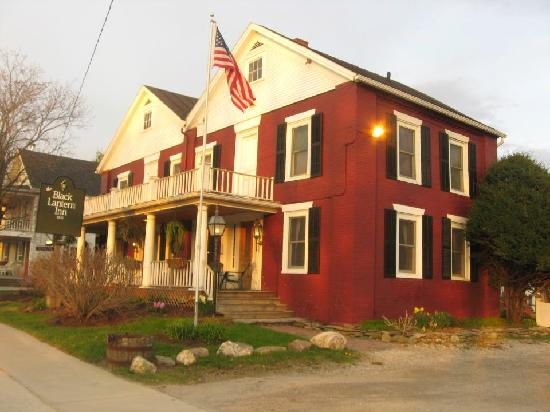 The Black Lantern Inn in Montgomery, Vermont where Brianna Maitland worked